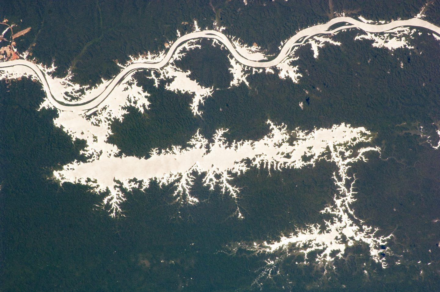 The 38-kilometre-long Lago do Erepecu (Lake Erepecu) in Brazil runs parallel to the lower Rio Trombetas (Trombetas River), which snakes along the upper half of this astronaut photograph. Water-bodies in the Amazon Rainforest are often so dark they can be difficult to distinguish. In this image, however, the lake and river stand out from the uniform green of the forest in great detail as a result of sun-glint on the water surface. Sun-glint is the mirror-like reflection of sunlight off of a surface directly back towards the viewer, in this case an astronaut on-board the International Space Station. Forest soil is red, as shown by airfield clearings near Porto Trombetas (image far upper left), a river port on the south side of the Trombetas River. Note: This map is inverted: North is down, east is left